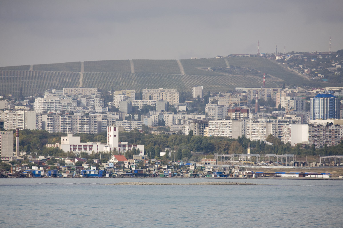 Sudjuk island in Tsemess bay, Novorossiysk, Russia.